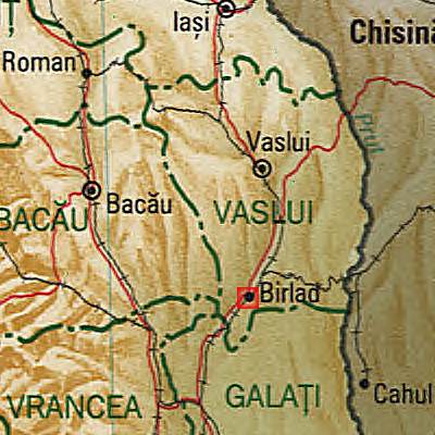 Map of Bârlad Municipality, Romania.